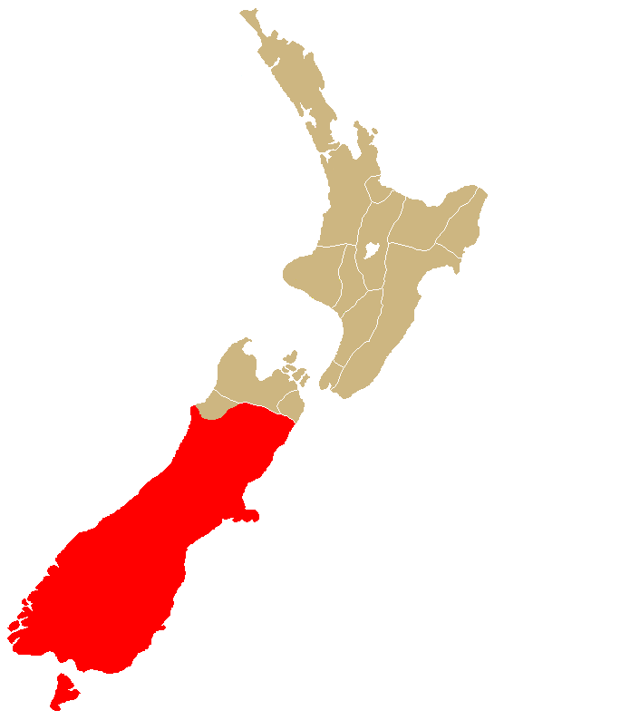 Created by User:Lanma726 derived from Image:IwiMap.png